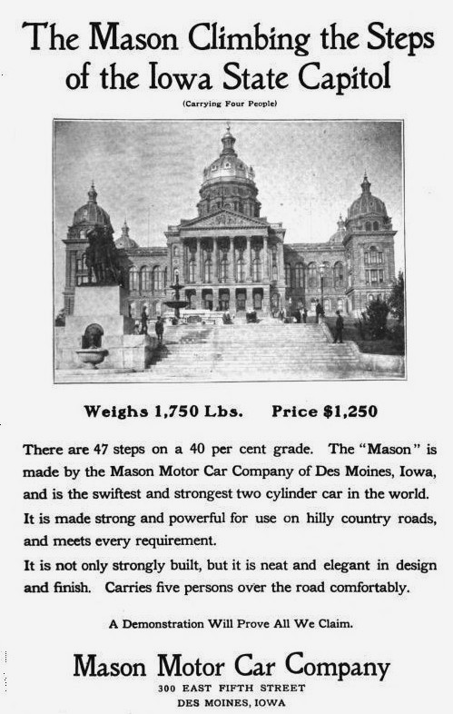 To promote the new Mason 24 HP, Mason Motor Car Co. chief engineer Fred Duesenberg climbed the 40 % grade of the Iowa State Capitol - Forward, rearward, and occupied with 4 passengers.